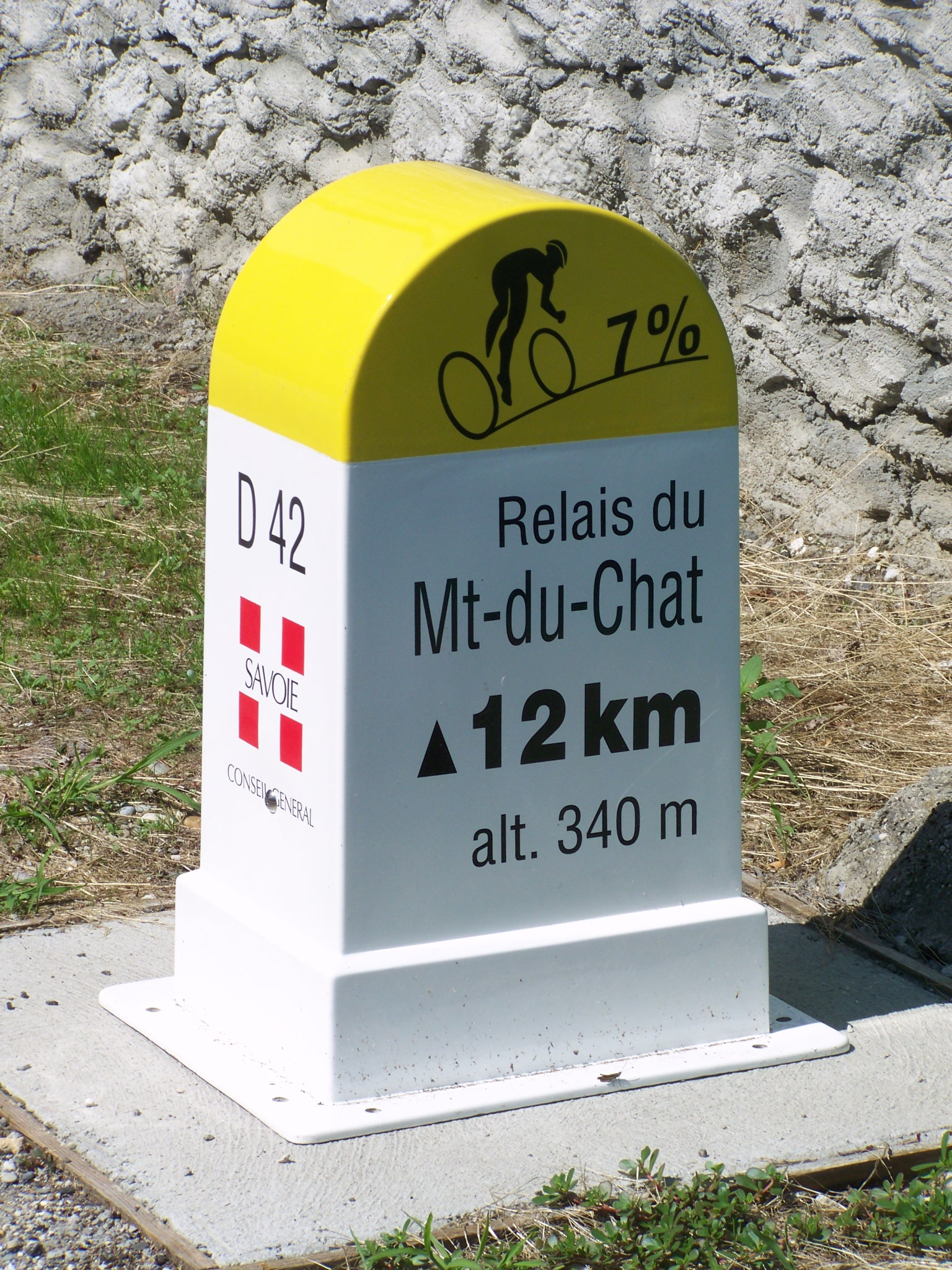 Milestone for bikers when going to the relais du Mont du Chat in Savoie, France.